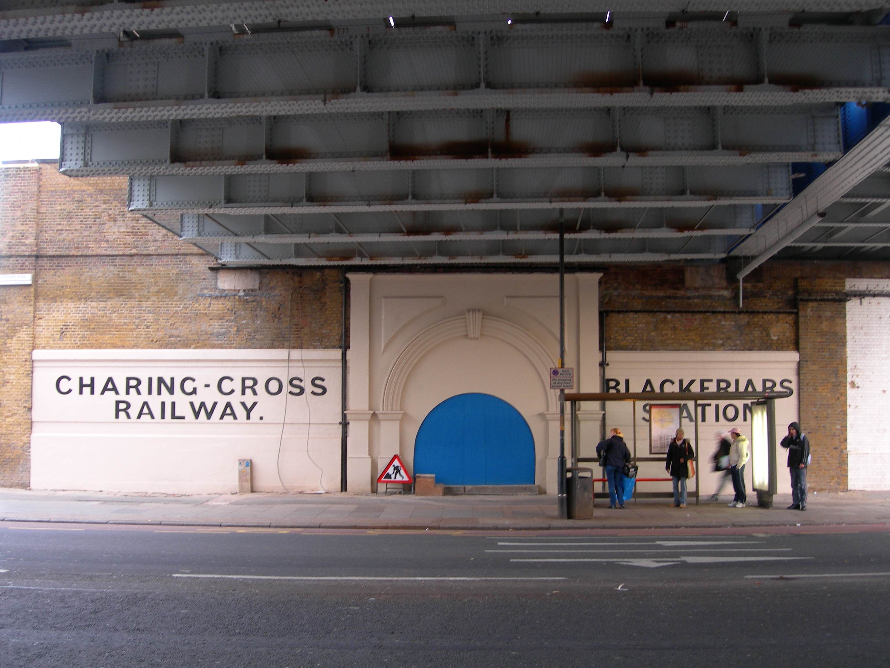 The former entrance to Blackfriars railway station. It was recently cleaned up and restored.